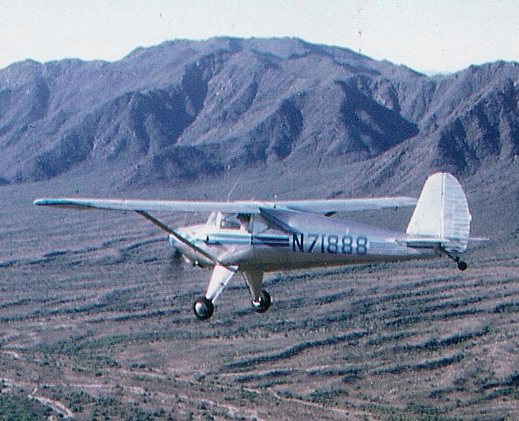 Luscombe 8A N71888 near Phoenix, AZ.